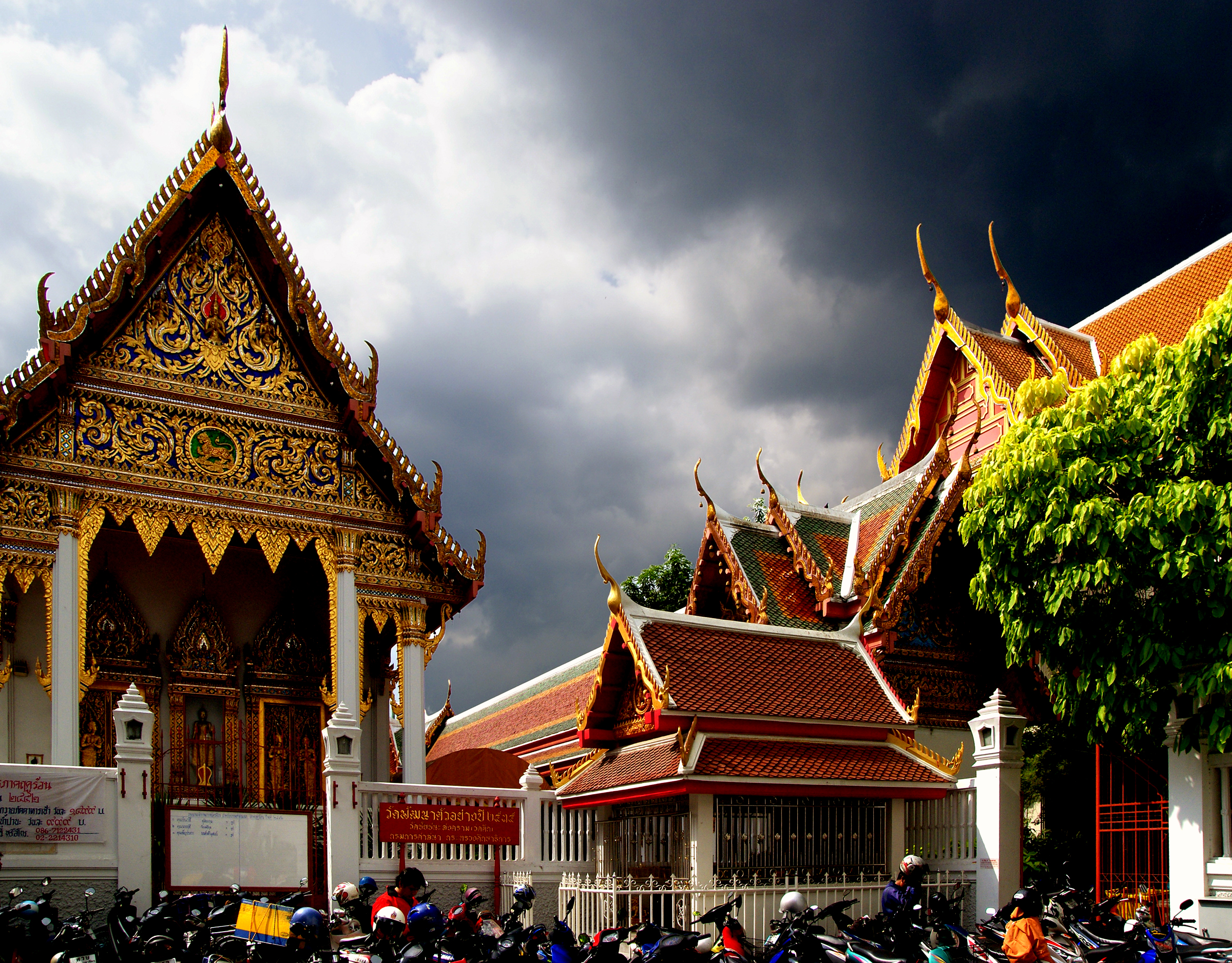 The best time to visit most temples is in the early morning. It's cooler and generally less crowded. The temples ('wats') are not just tourist attractions but also play an important part in Buddhist traditions